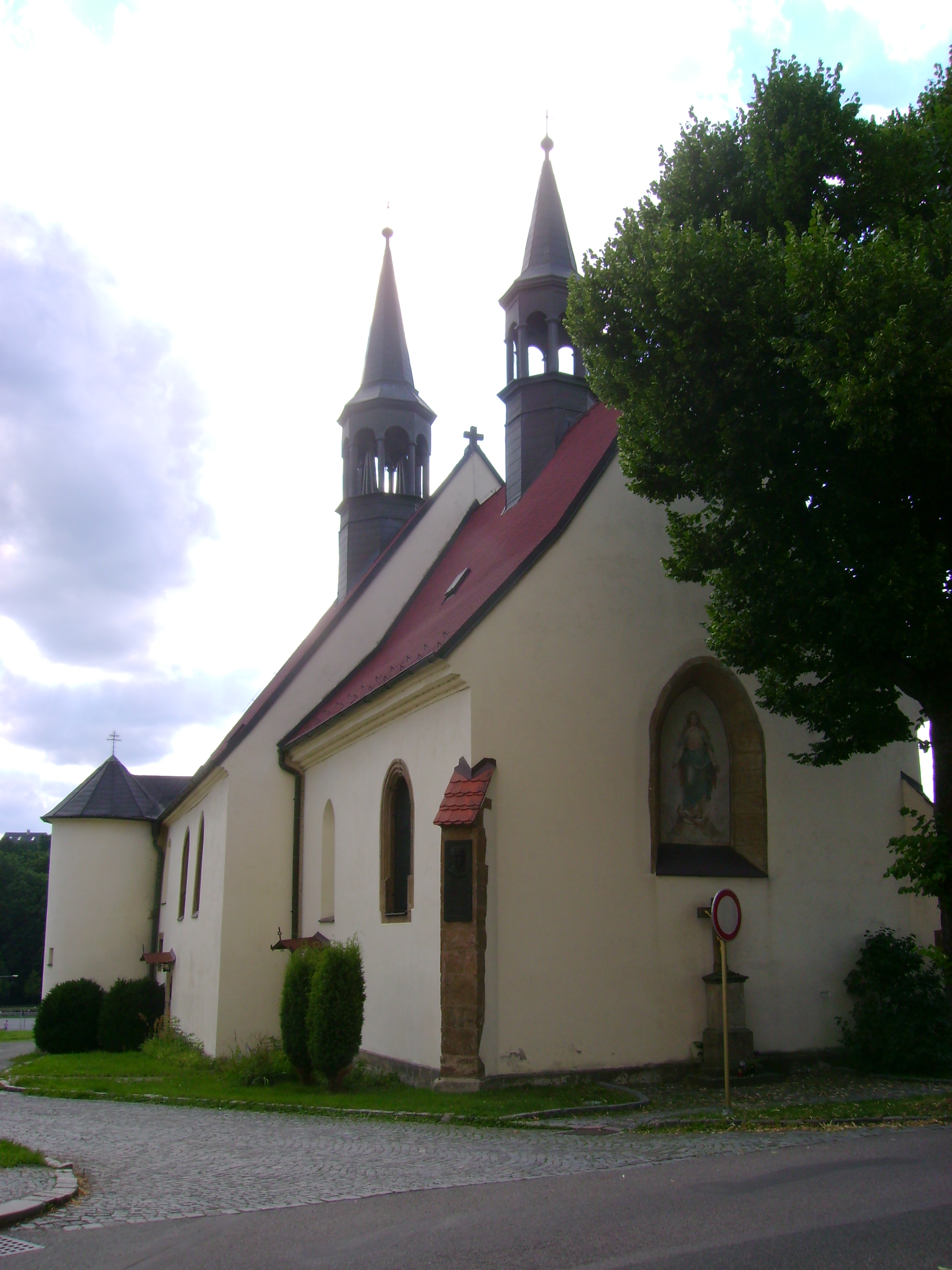 Church of Saint Gall in Rychnov nad Kněžnou, Rychnov nad Kněžnou District, the Czech Republic. Česky: Kostel svatého Havla v Rychnově nad Kněžnou, okres Rychnov nad Kněžnou.